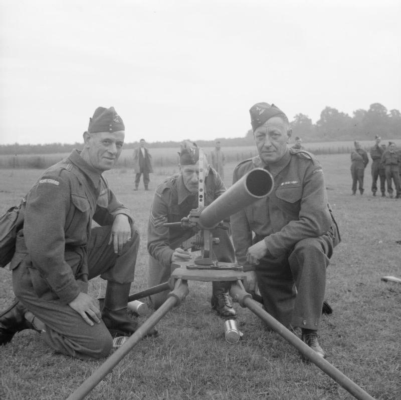 Men of 'E' Company, 20th (Sevenoaks) Home Guard with a Northover Projector at Chelsfield in Kent.